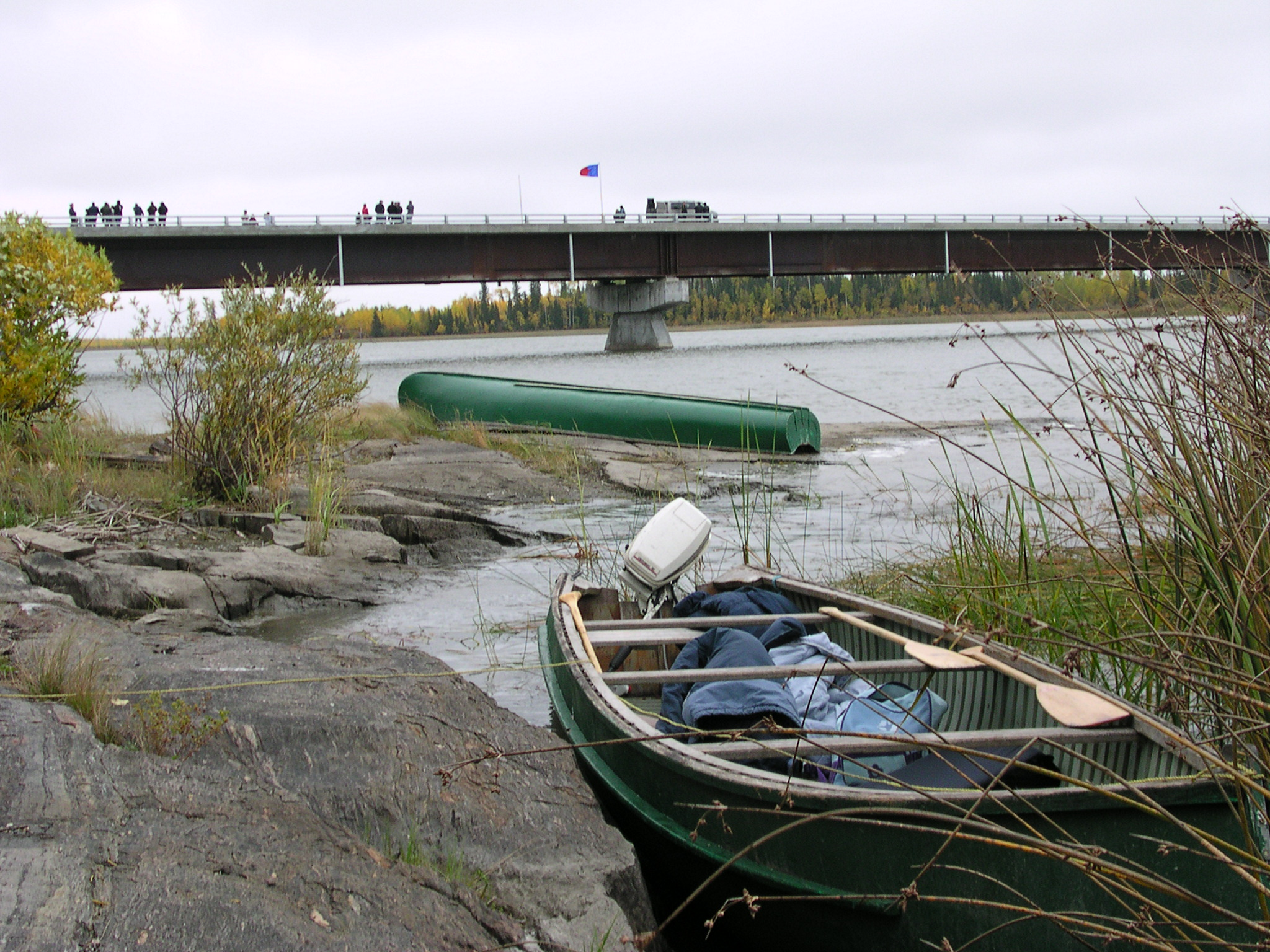 The Kichi Sipi Bridge in northern Manitoba.